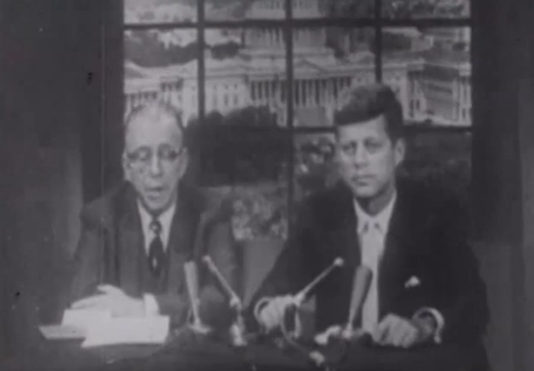 From video of Senators Irving and Kennedy after the defeat of their labor reform bill in the House of Representatives.